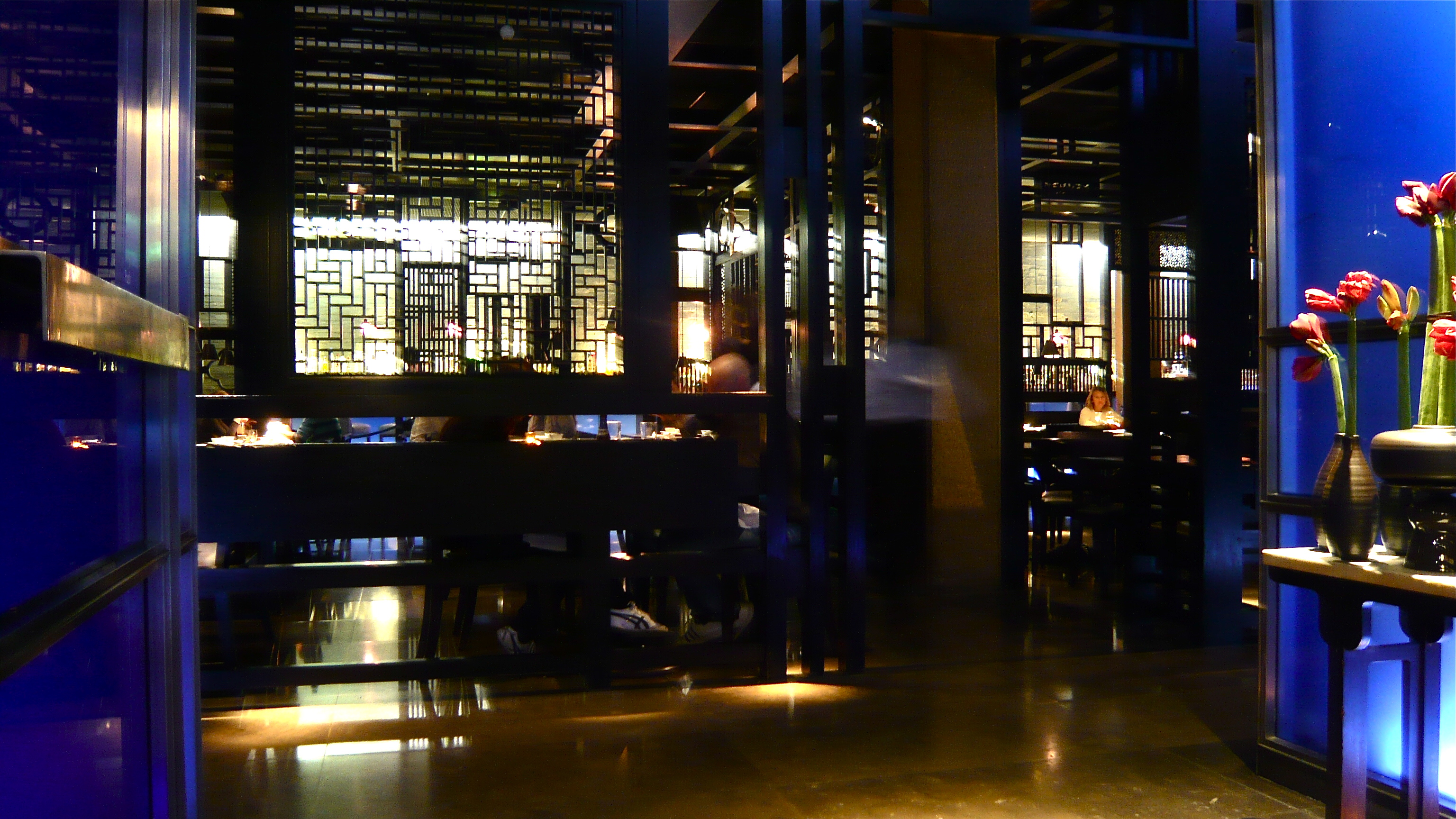 Hakkasan in London